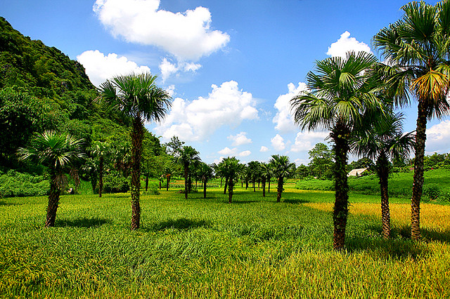 Rice fields and palm trees in Tuyen Quang Province, Vietnam